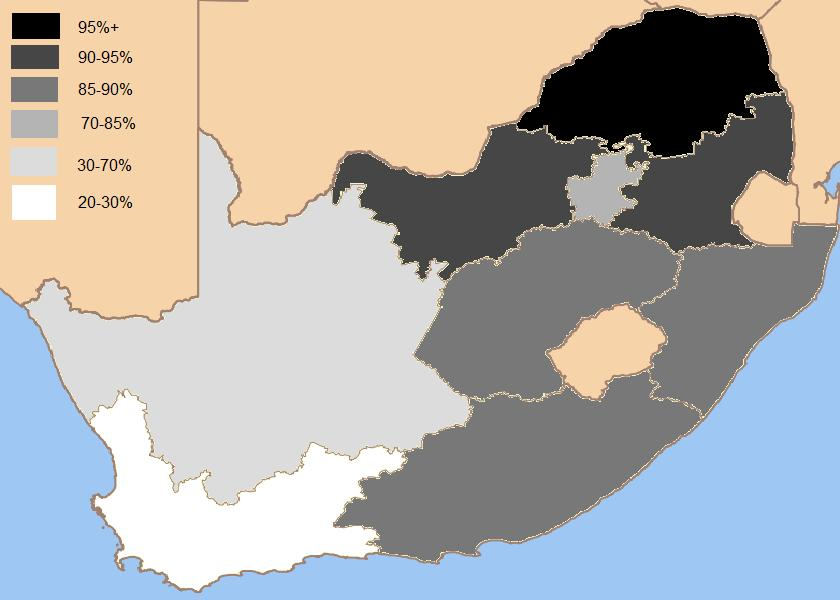 The black population of South Africa by Province